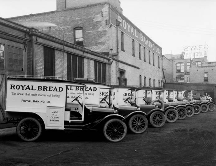 Royal Baking Co.'s delivery trucks, manufactured by Dodge.